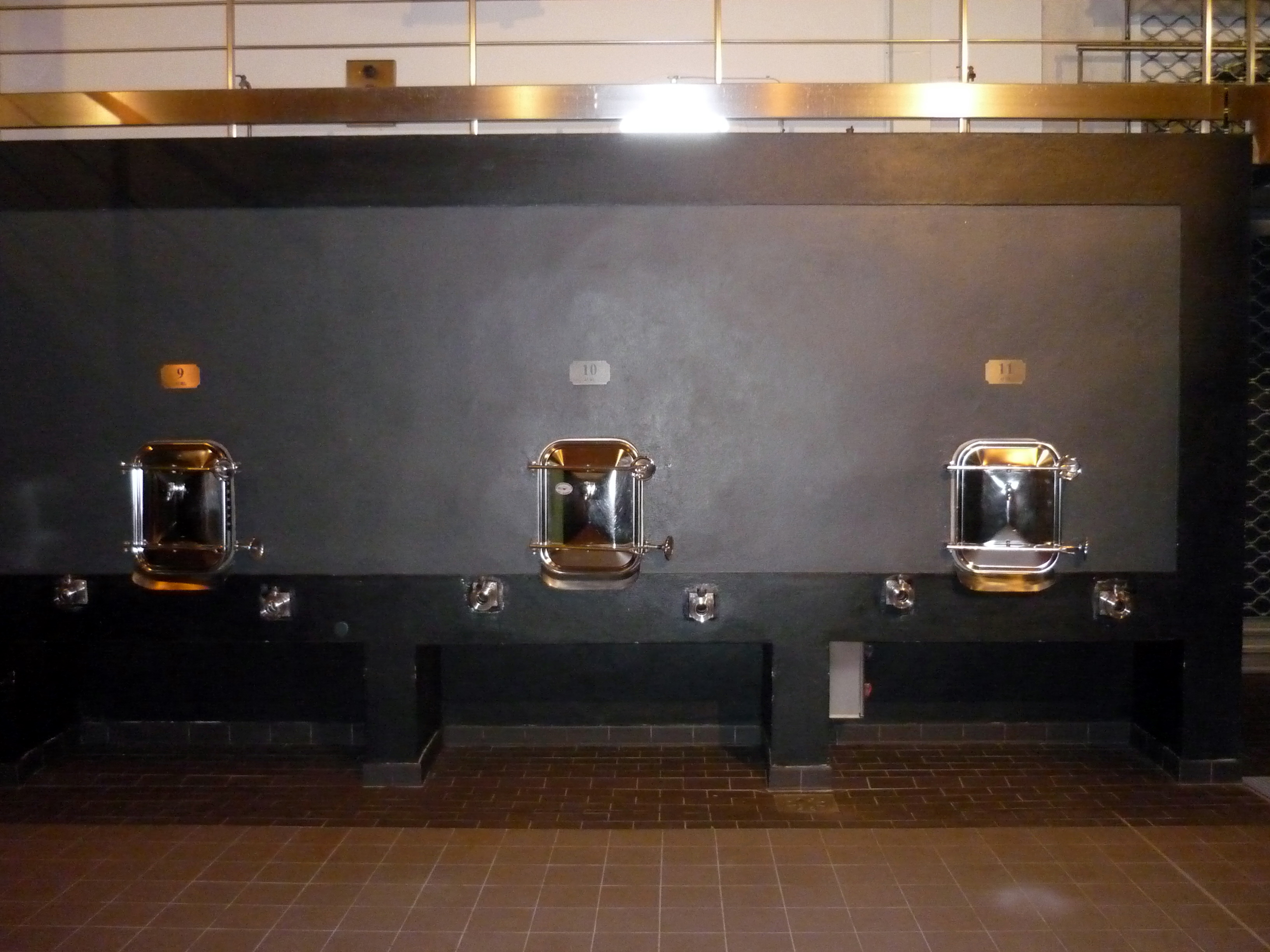 Custom concrete fermentation tanks used by the Pomerol winery Château l'Evangile located on the right bank in the French wine region of Bordeaux.